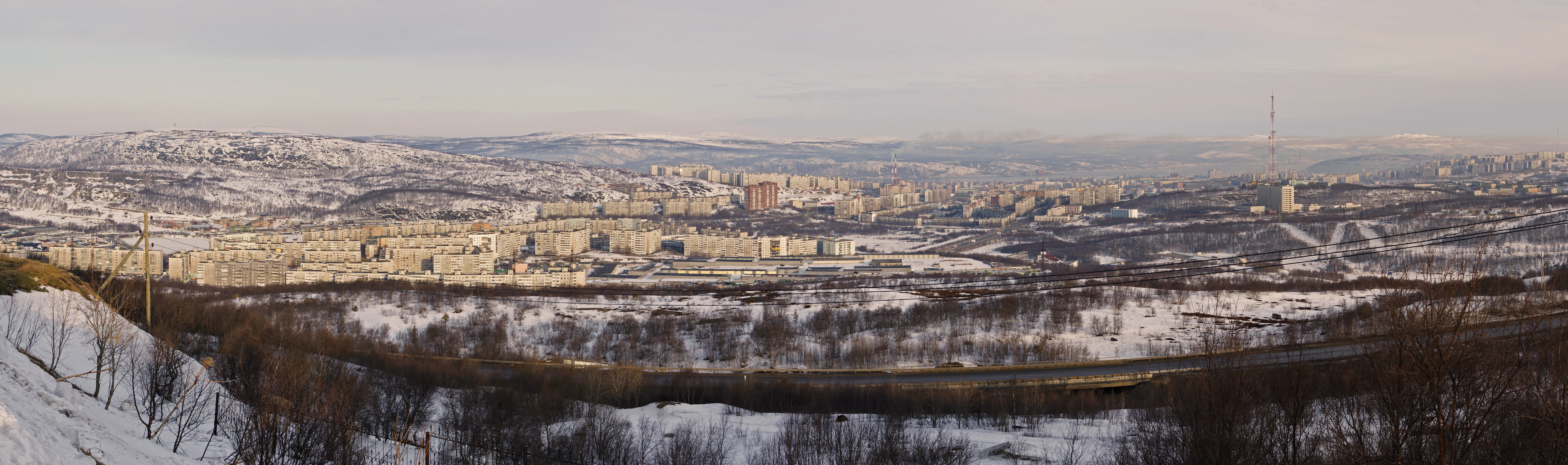 Panorama of Murmansk from Omni Hotel Murmansk.